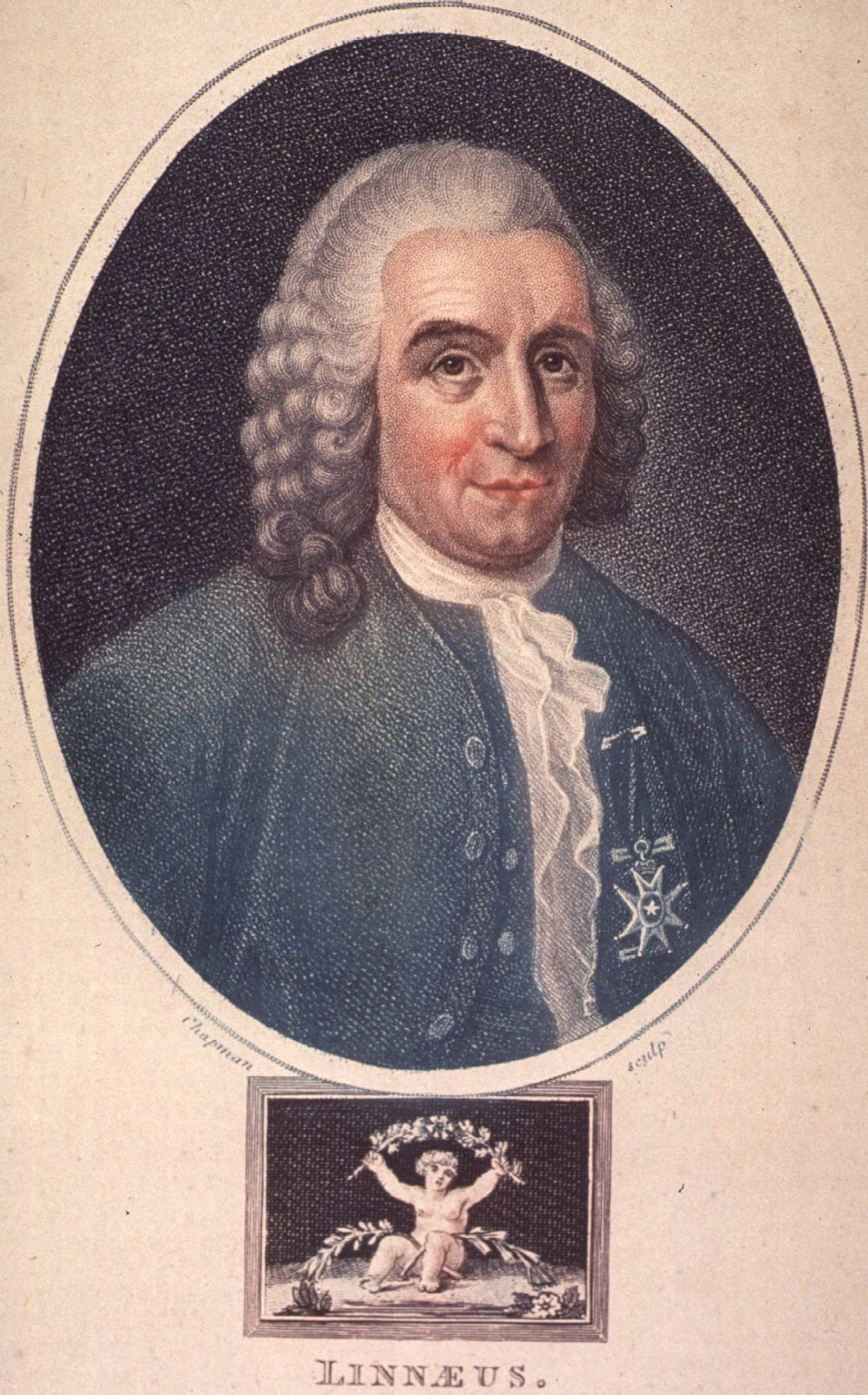 Portrait of Carl von Linné. Images from the History of Medicine.